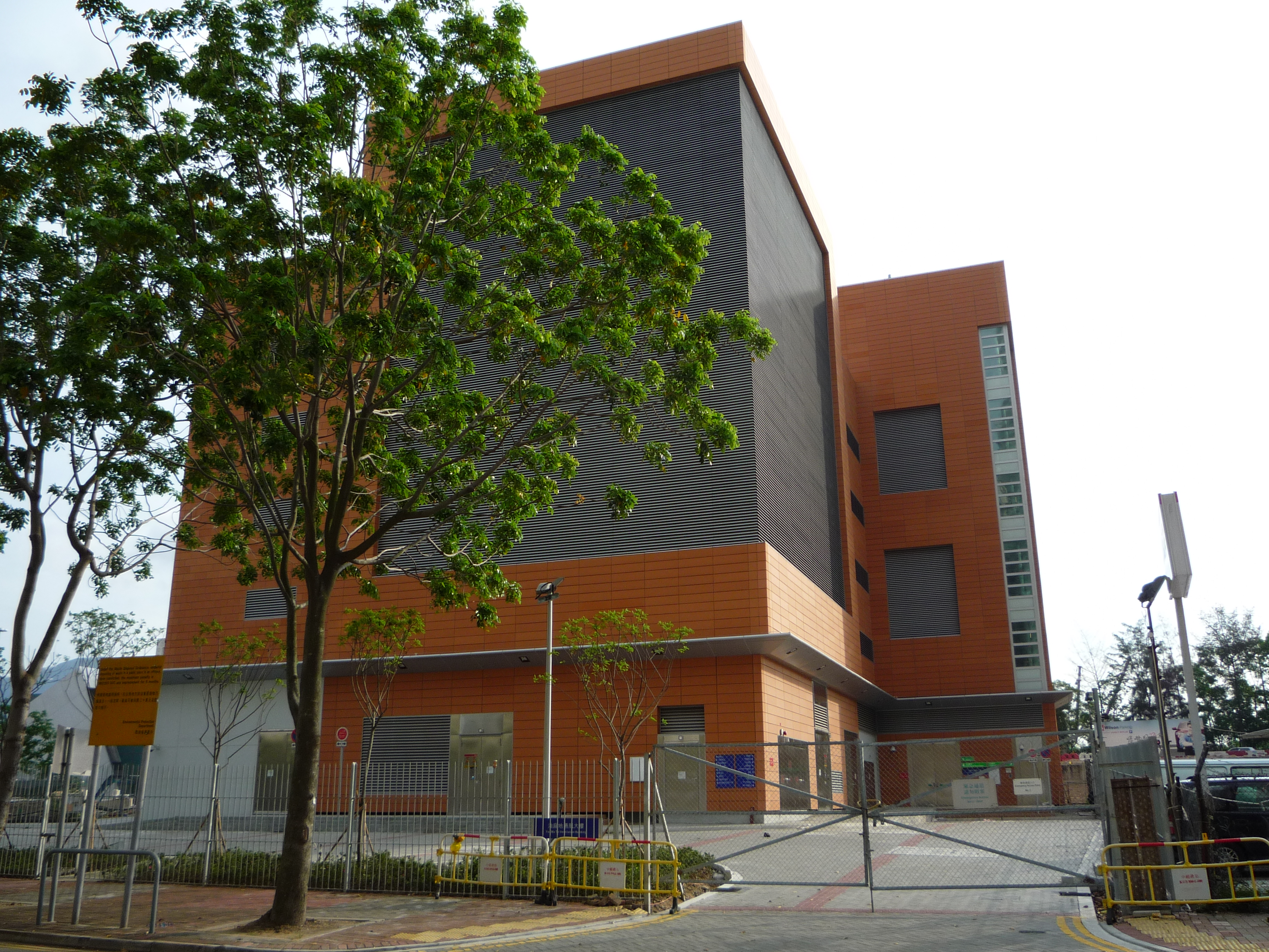 MTR West Rail Line Kowloon Southern Link Yau Ma Tei Ventilation Building